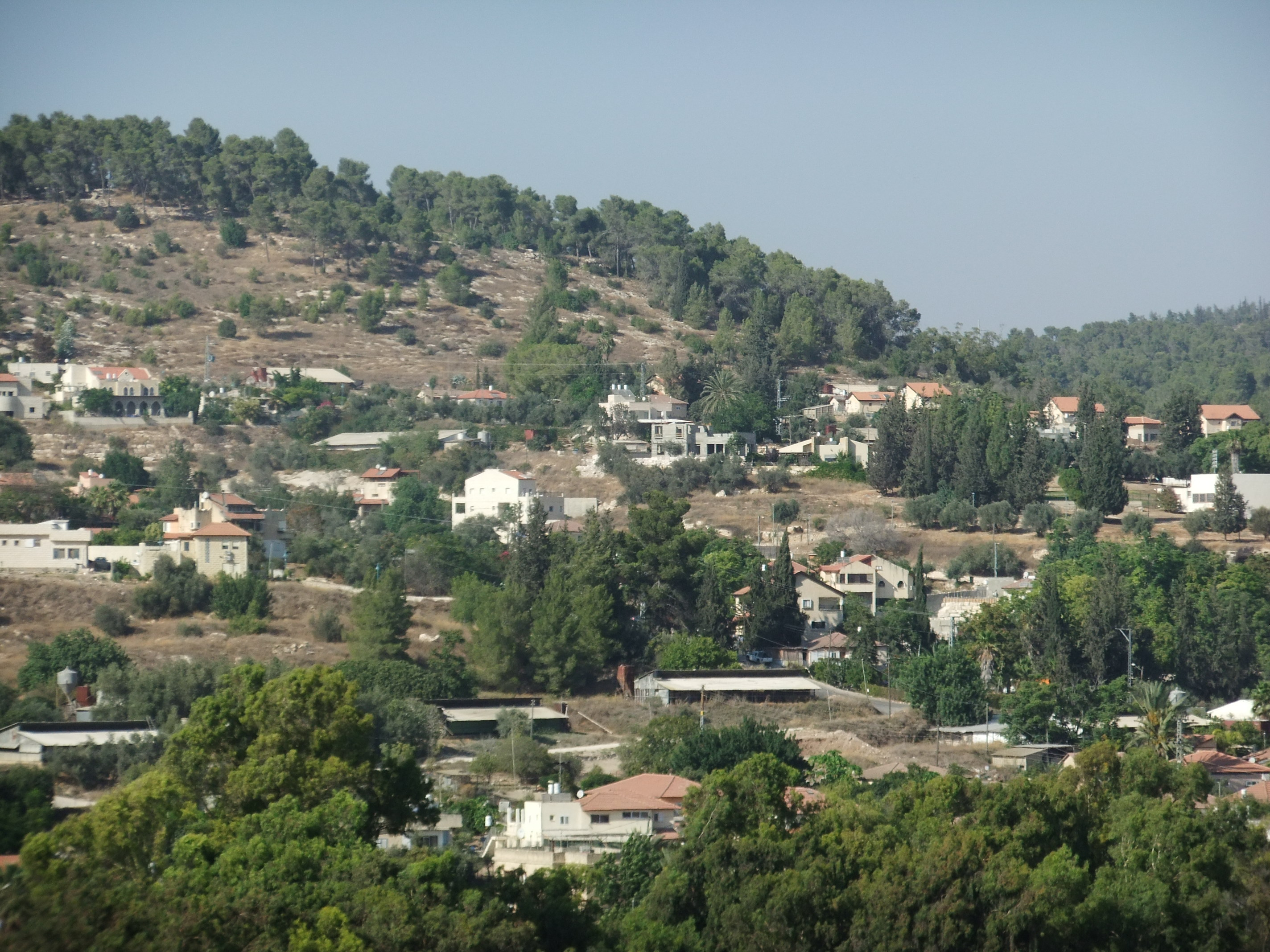 Eshtaol from Eretz Hachayim cemetary